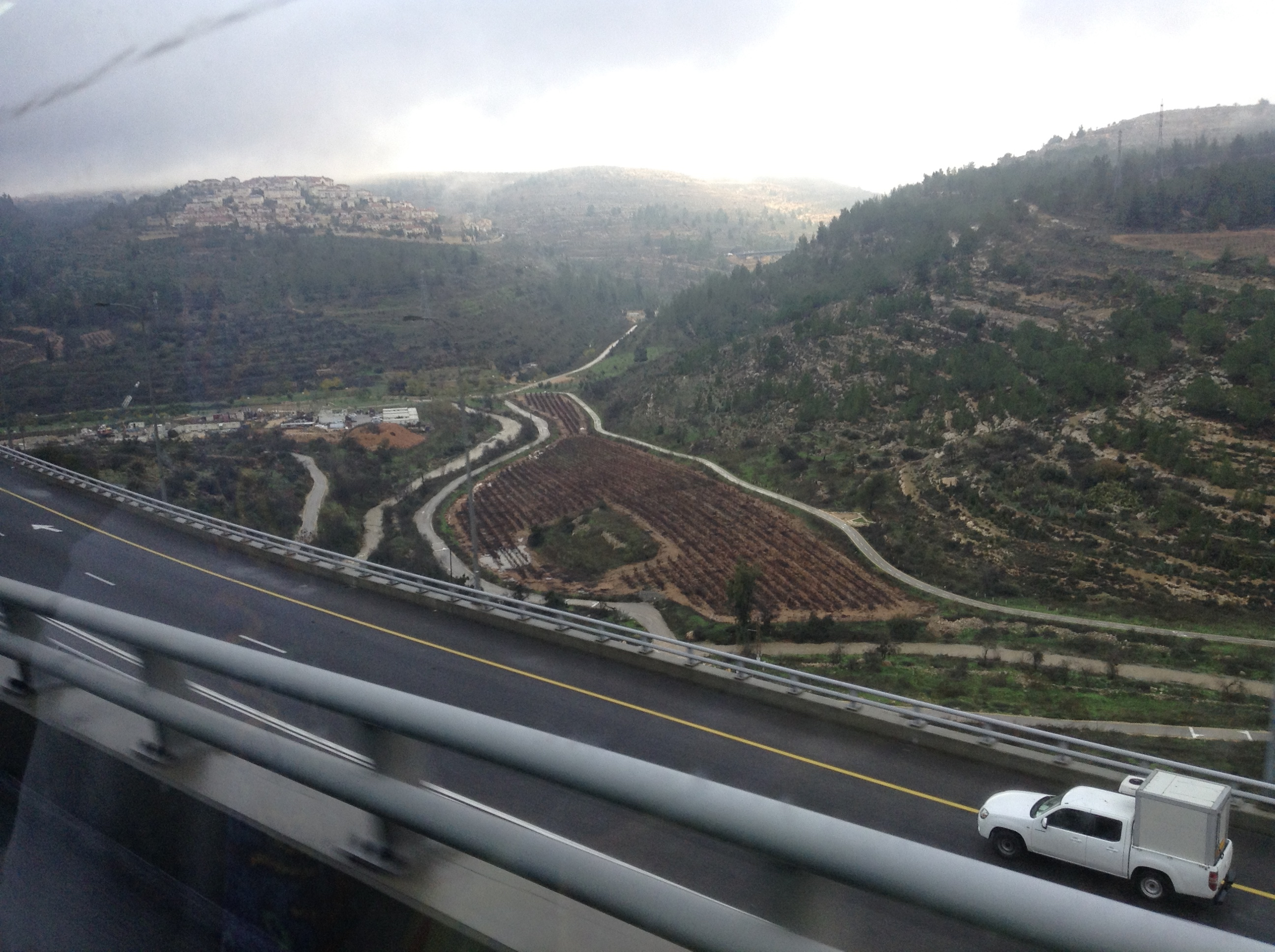 The route from Jerusalem to Ashdod